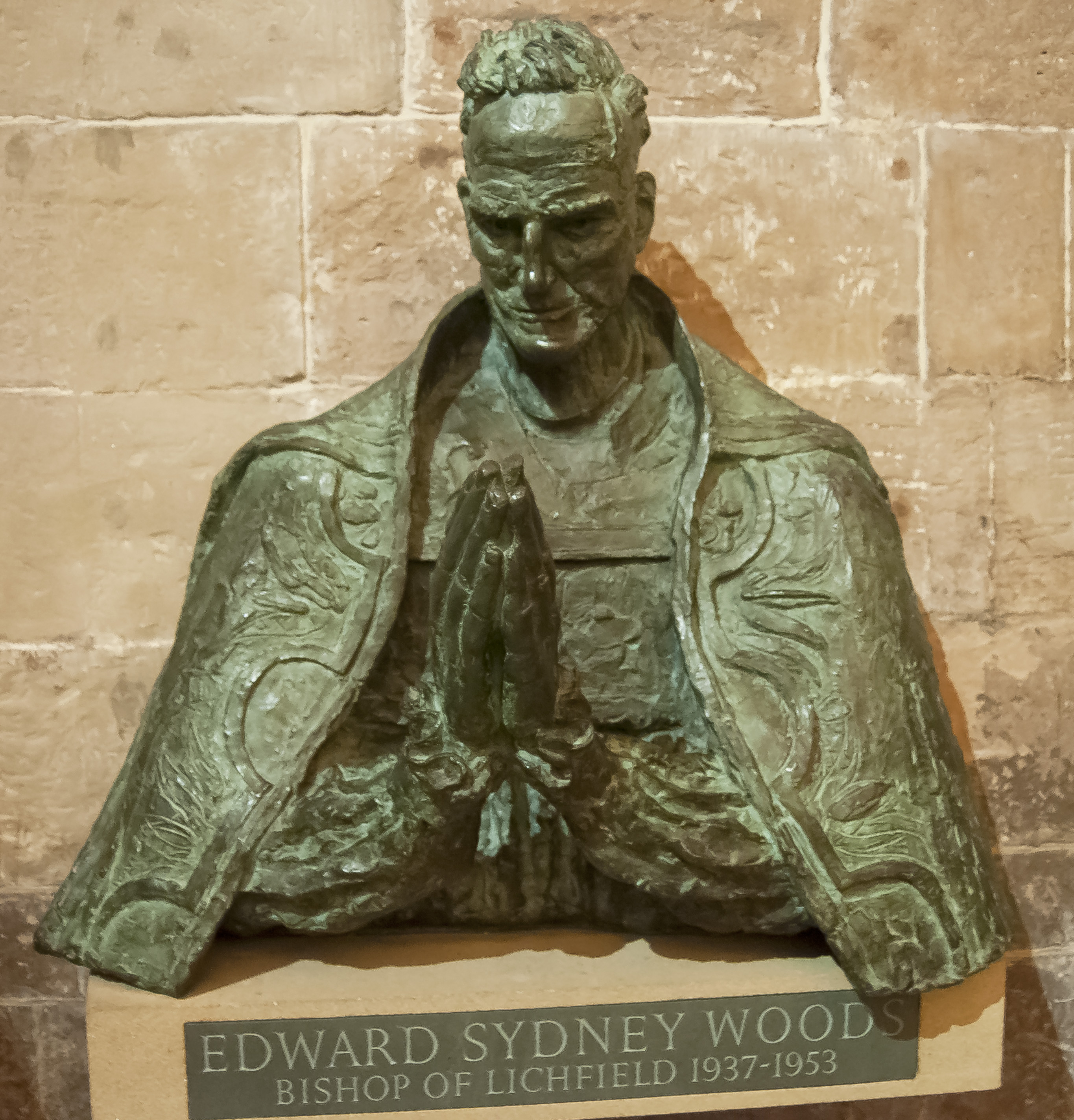 Statue of Edward Sydney Woods by Jacob Epstein in Lichfield Cathedral.